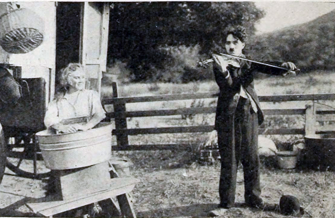 Illustration of a review in The Moving Picture World